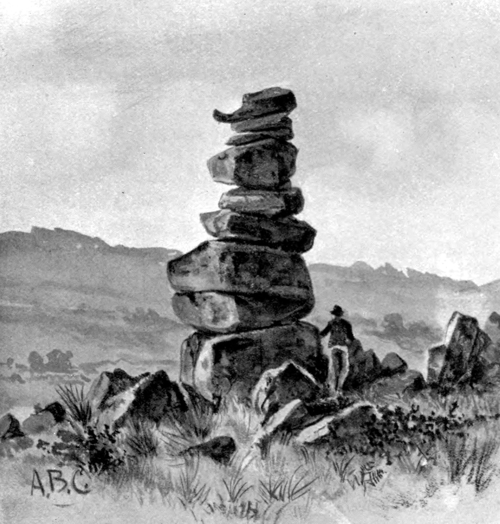 Image from scanned copy of book by Sabine Baring-Gould, "A Book of Dartmoor, published in 1907 and in the Public Domain. From Image has been cropped and exposure adjusted slightly.